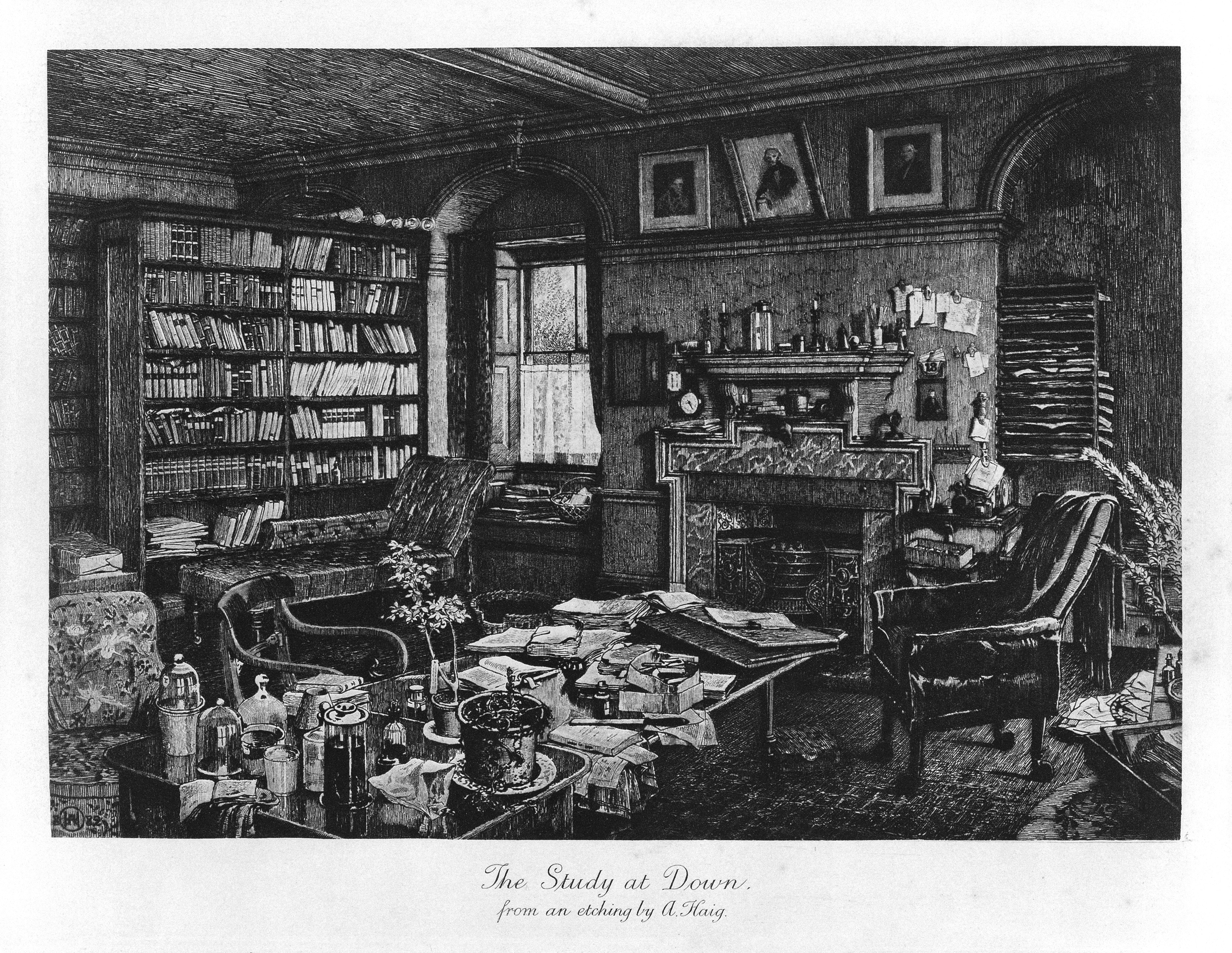 The Study at Down General Collections Keywords: Charles Robert Darwin; Axel Haig